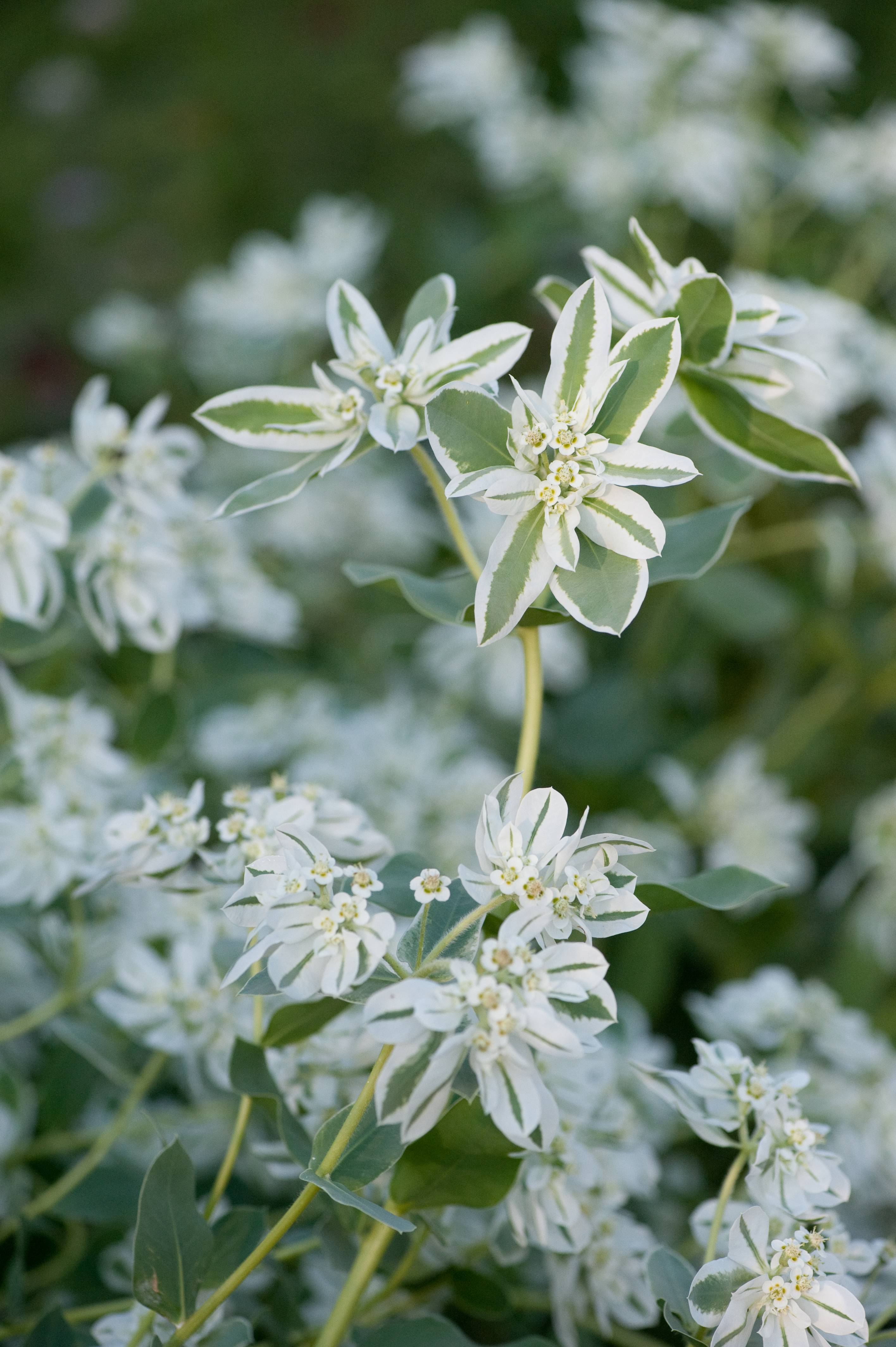 The green and white flowers are really just leaves. The flowers are the small things in the center of the leaf cluster. Really a foliage plant. The sap is reputed to be a skin irritant to some people, like poison ivy, but not as bad. I haven't yet come across anyone who has had a reaction.